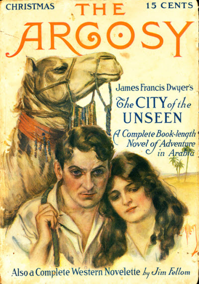 Argosy cover, December 1913